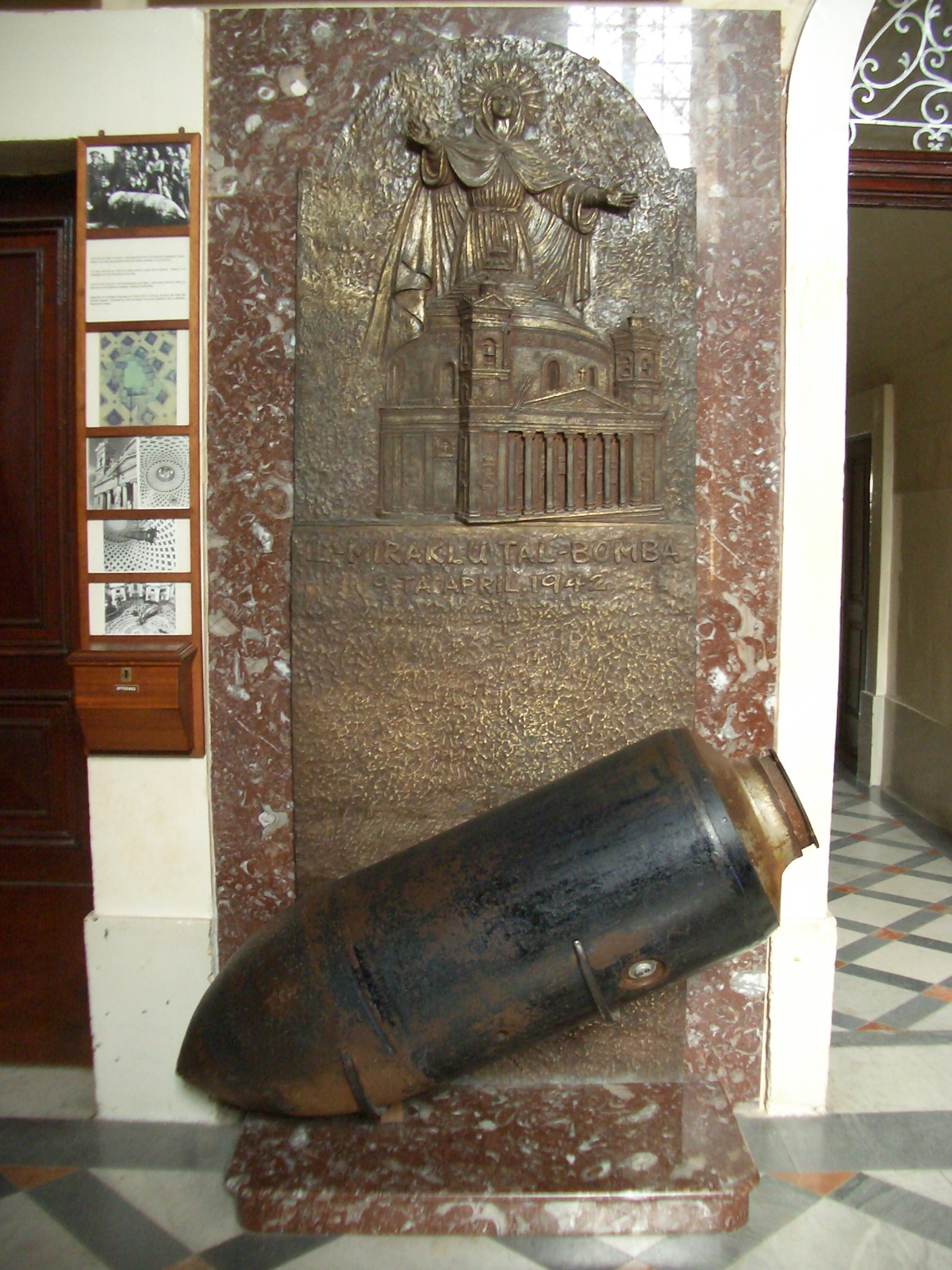 Replica of the bomb that peirced the Mosta Dome, Malta in 1942 during World War II.